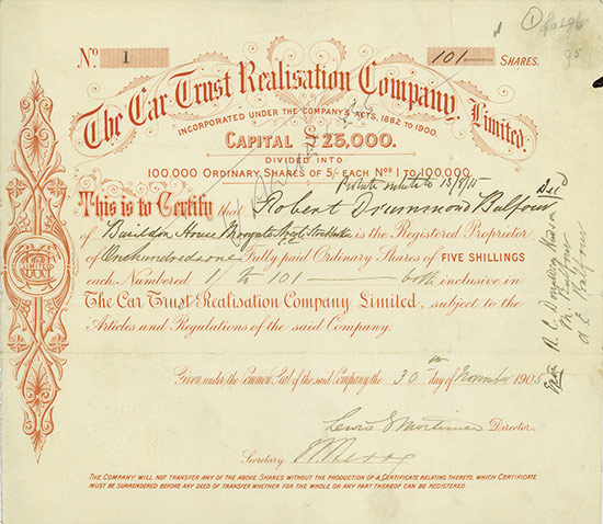 101 Ordinary Shares in the Car Trust Realisation Company Limited. Shows "Robert Drummond Balfour" as stockbroker in the firm James Capel and Co.